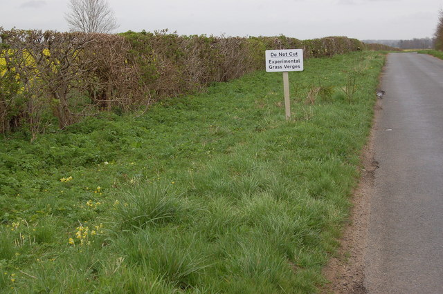 Don't cut the grass! Experimental verges on Akeman Street